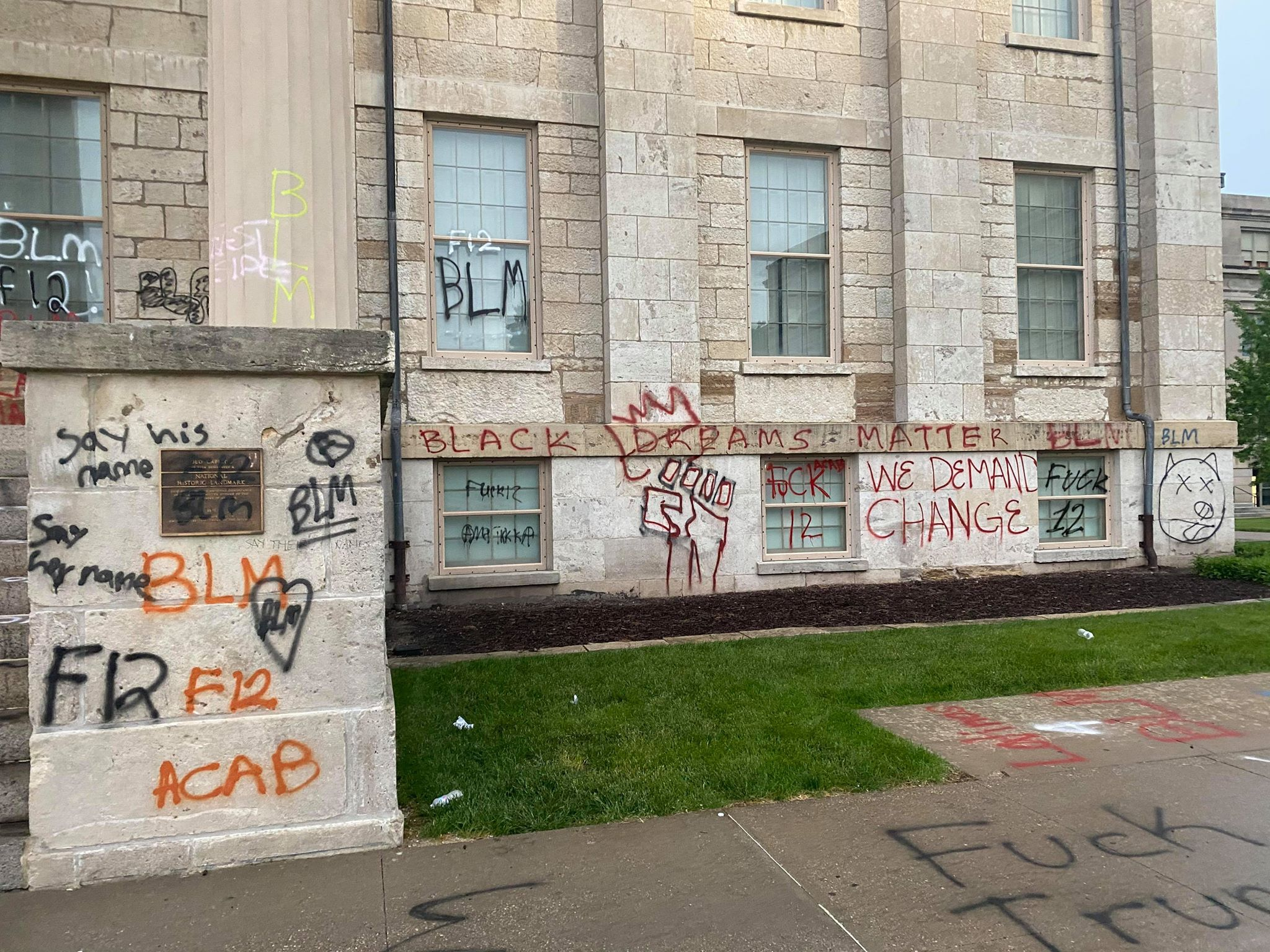 June 5, 2020 - A minority of people among a large group of peaceful protesters defaced Old Capitol and other downtown buildings with spray paint. Very sad, and counterproductive. I get the protests but vandalism and graffiti are not necessary. And don't call looters "protesters." Looters aren't looking to make a political point, they're in it for fun and profit.